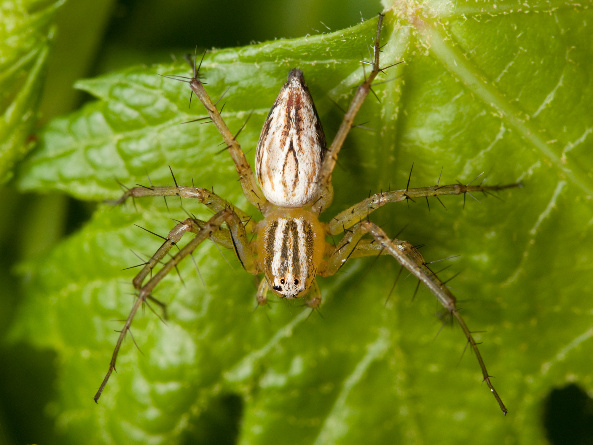 Adult female striped lynx spider (Oxyopes salticus) found at Shelby Park in Nashville, Tennessee